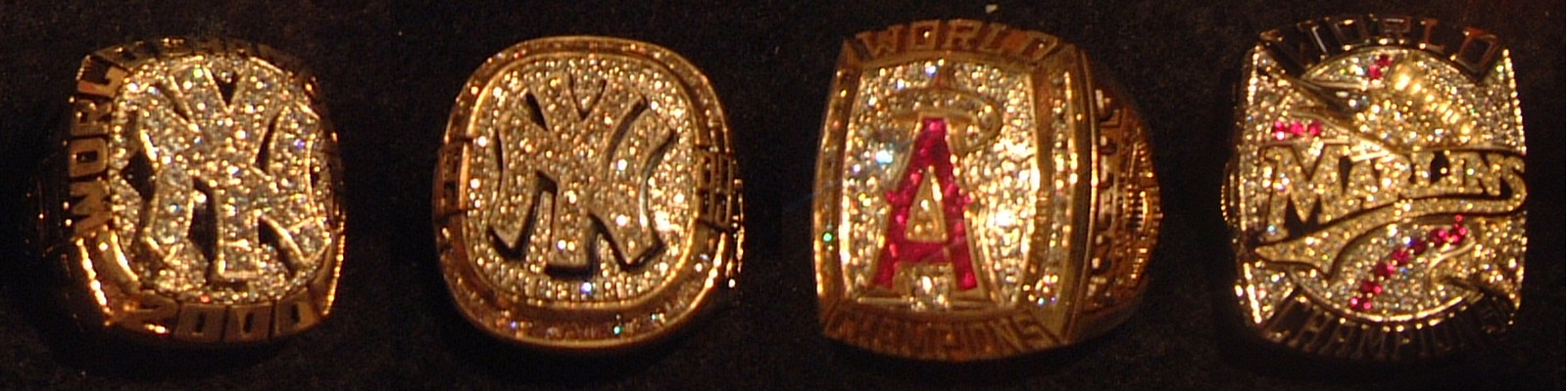 Champion rings placed in the Hall of Fame. Taken by author, on August 27, 2005 at Cooperstown. Digital camera: Fujifilm Finepix Z4900 Photoeditor: Photostudio for Macintosh